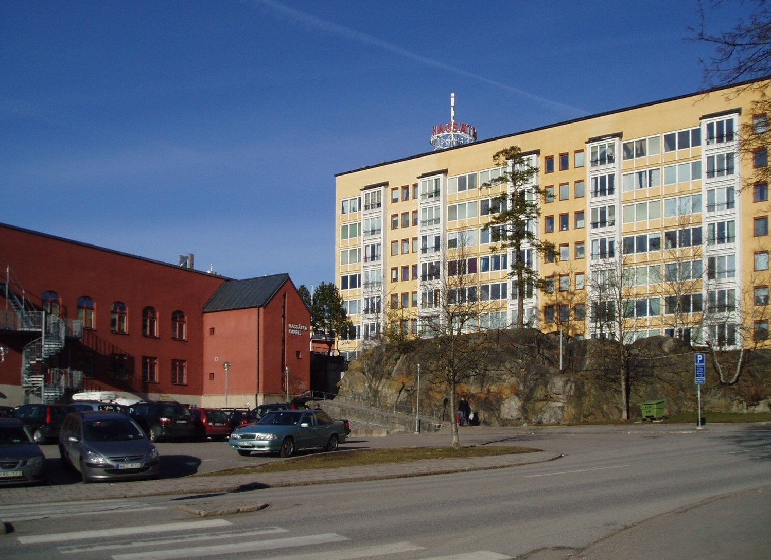 Hagsätra, district in Stockholm